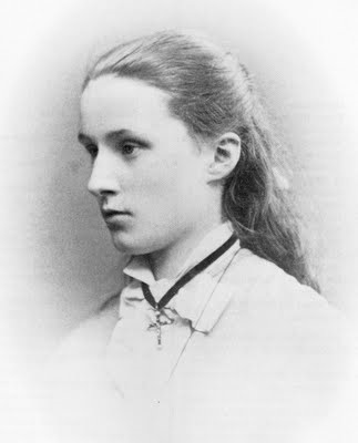 Portrait of Maria Droste zu Vischering at 15 years old.